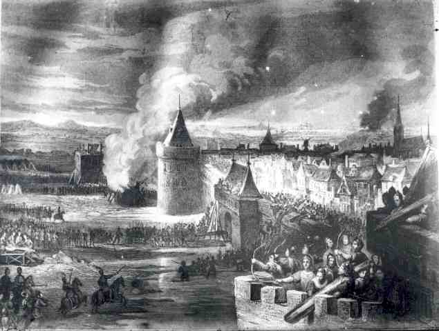 Dutch town Zierikzee is sieged by Flemish troups in 1304